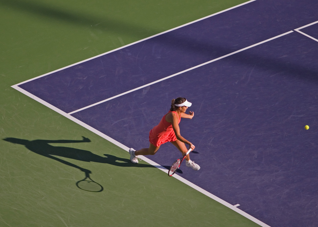 Even as Ana aggressively moves for this shot, her shadow looks like it's curtsying to the crowd.